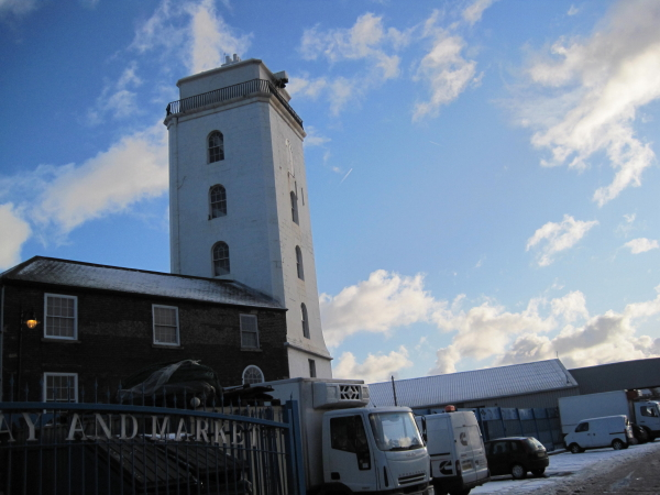 Low Light, North Shields Fish Quay